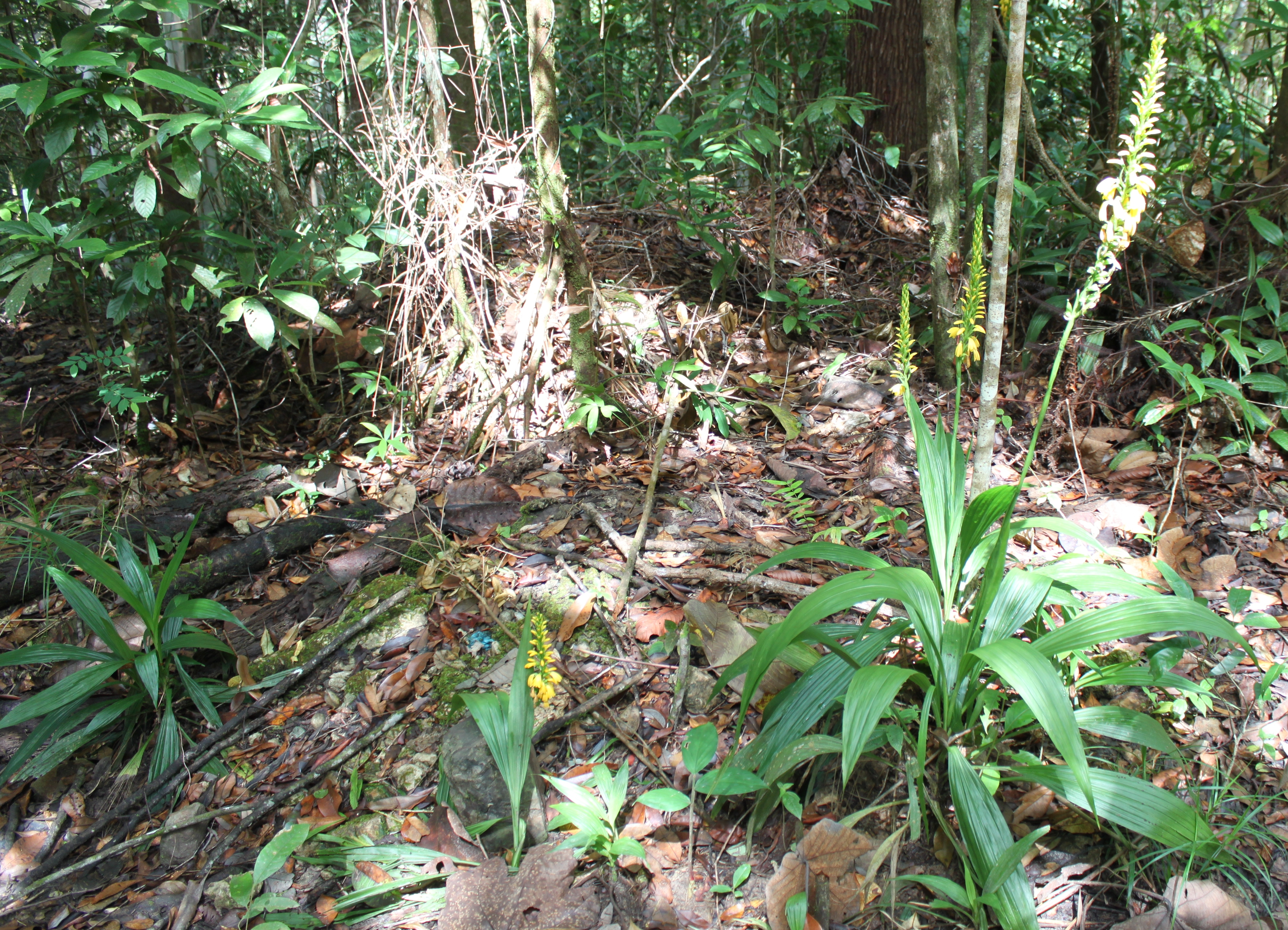 Neuwiedia veratrifolia – Mt Serapi/Mt Kayan, Sarawak, Malaysian Borneo